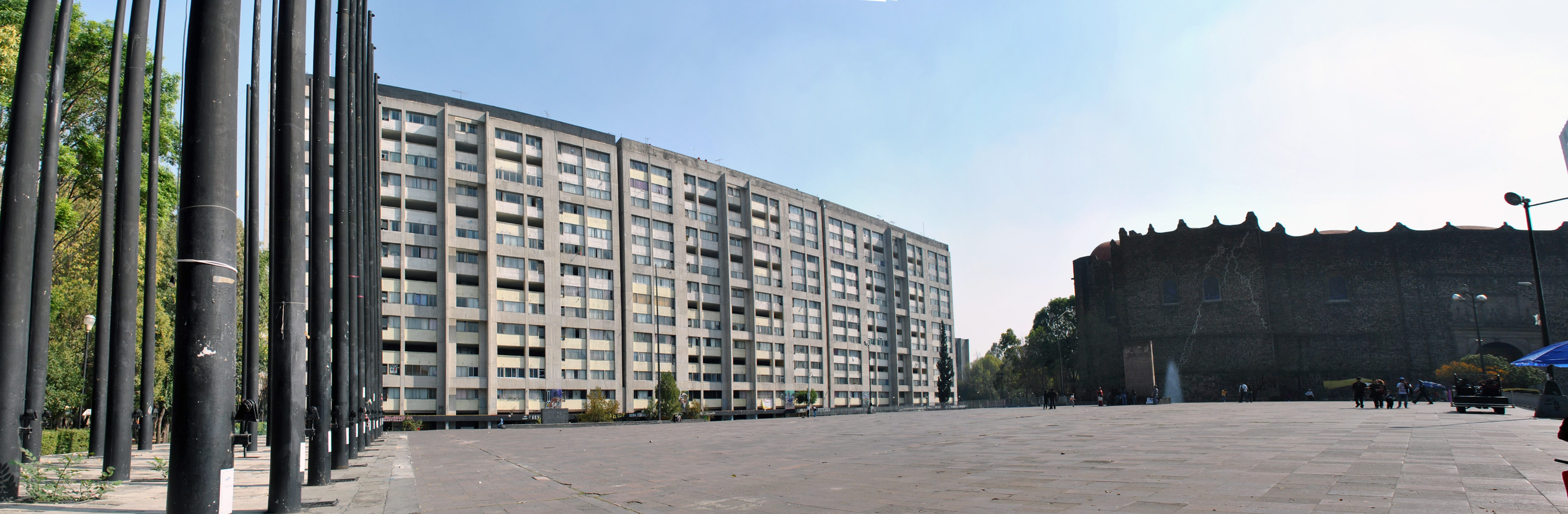 Panoramic of Plaza de las Tres Culturas